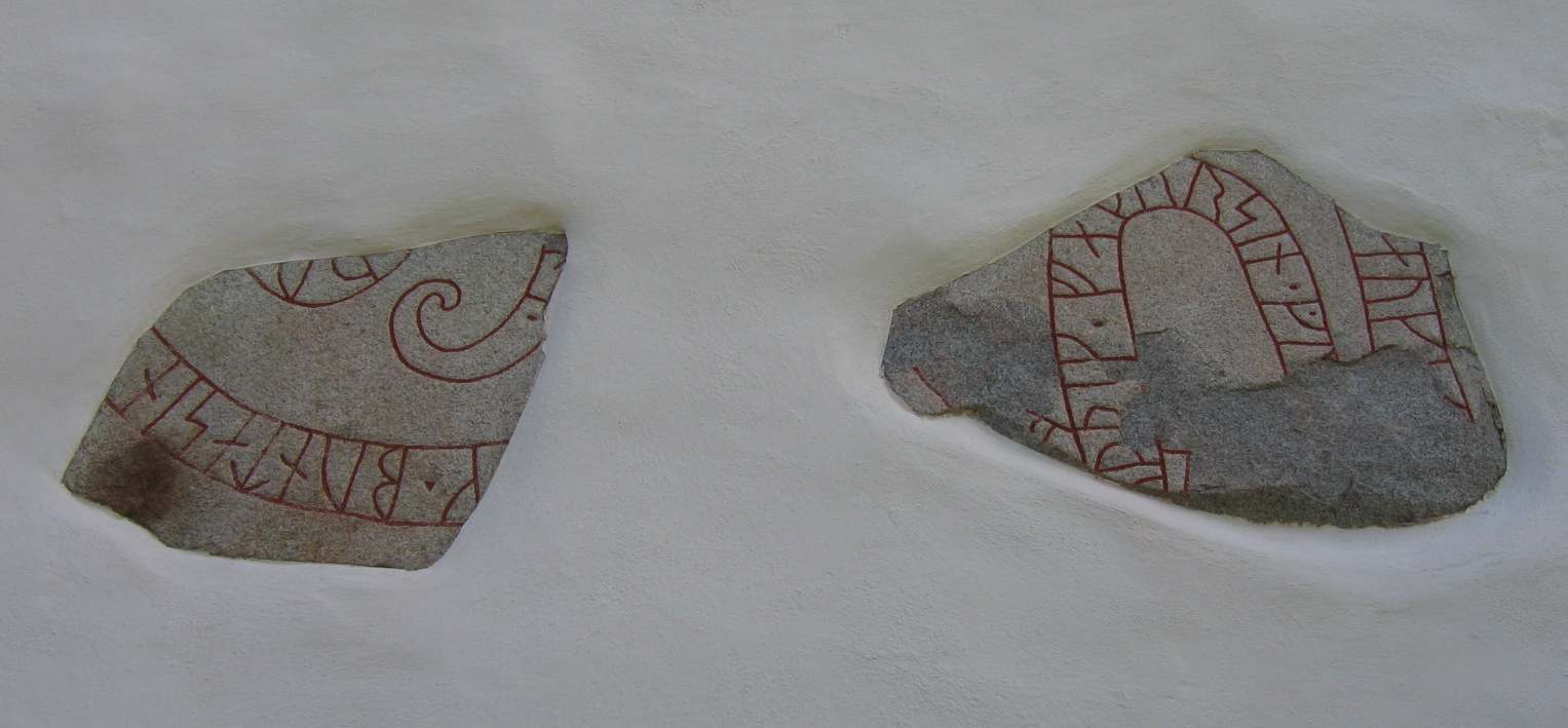 Runestones U 20 and U 21 (both fragments from the same stone), Färentuna kyrka, Ekerö, Sweden.